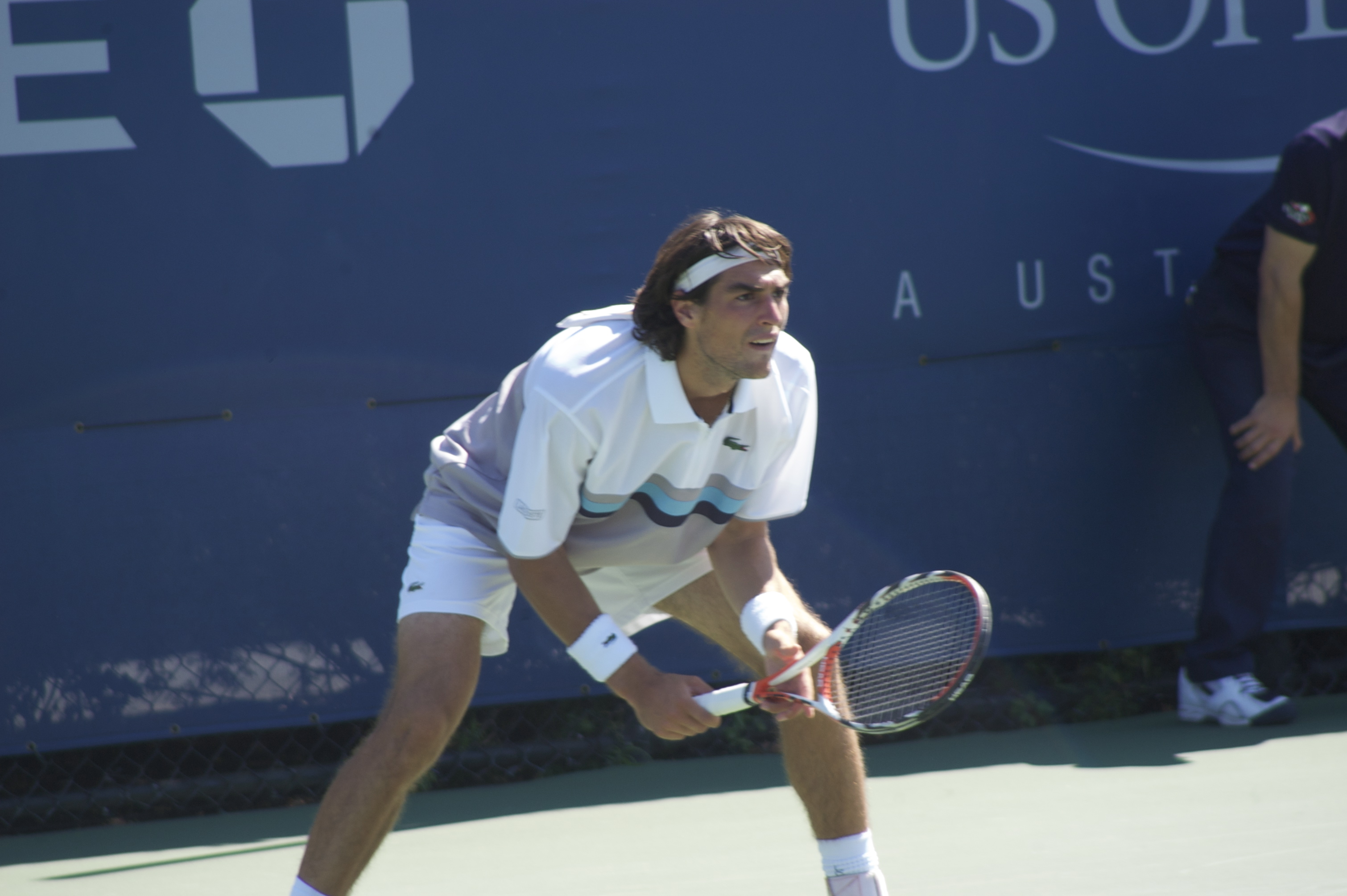 Jeremy Chardy at the 2008 U.S. Open (tennis)